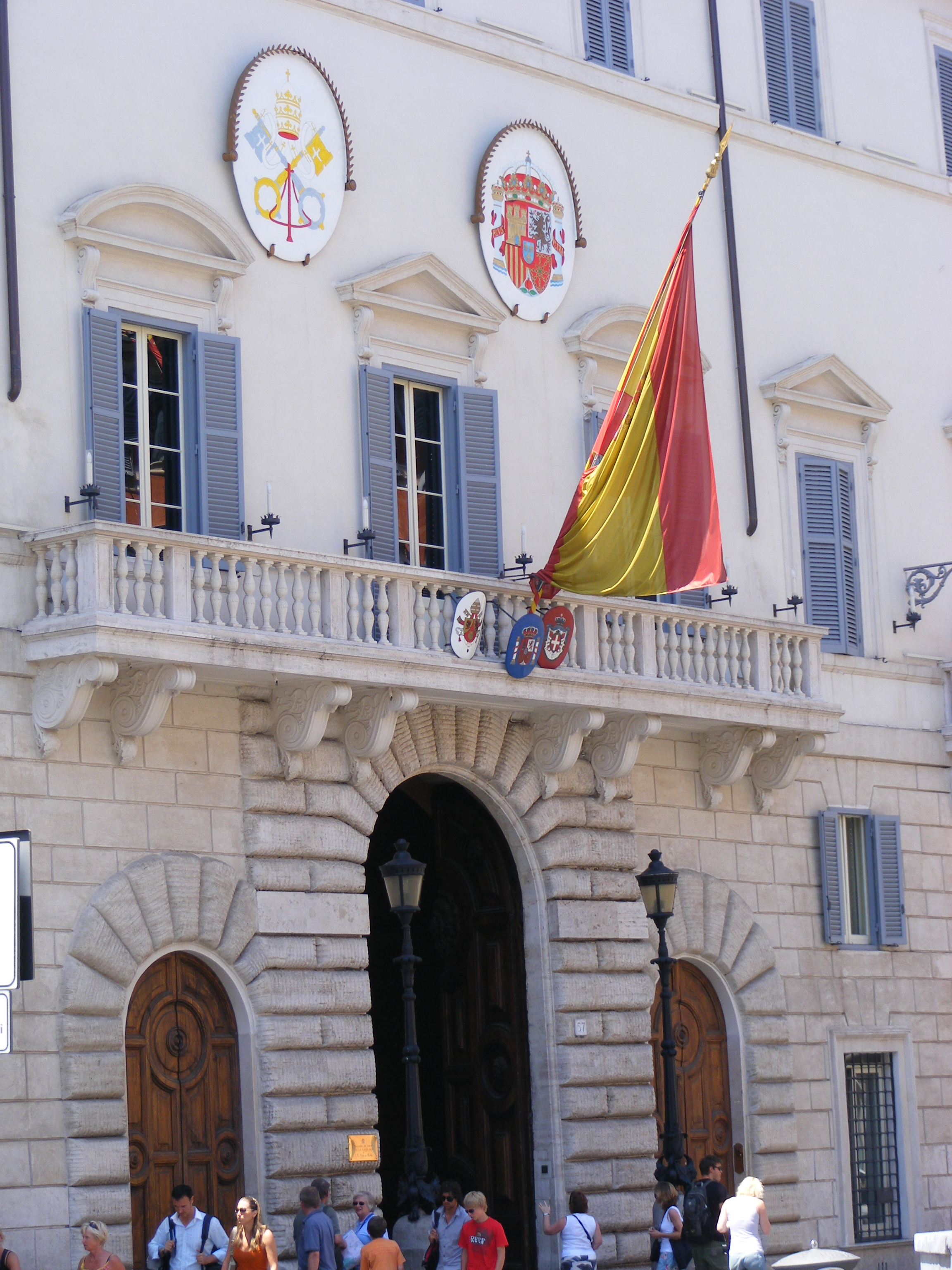 Spanish Embassy to the Holy See and the Sovereign Military Order of Malta (Piazza di Spagna).